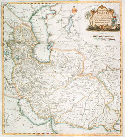 A dubious historical map of Iran